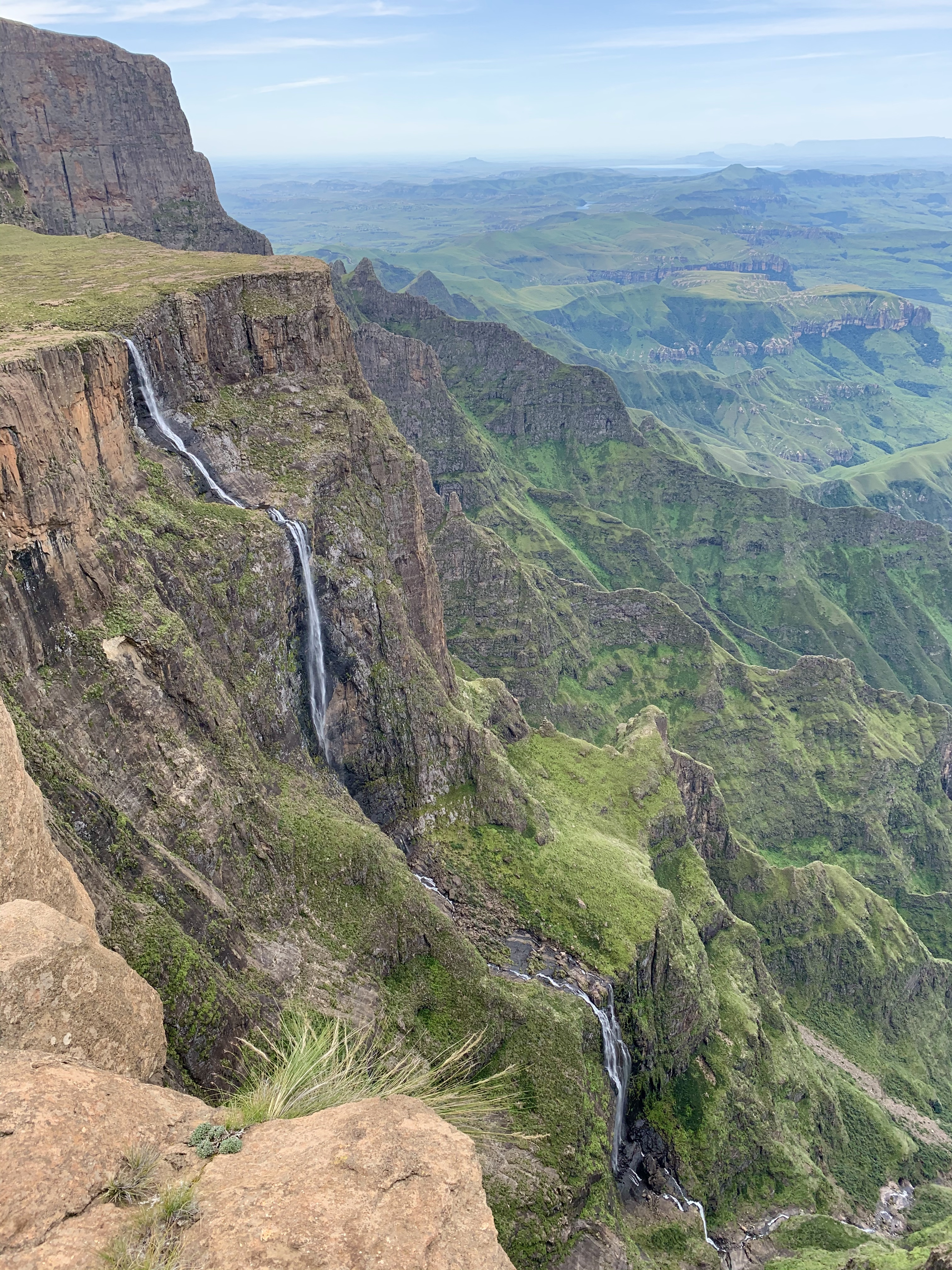 Tugela Falls in February, when seasonal flow is greater. This perspective shows the full falls, including the lower drops and cascades.